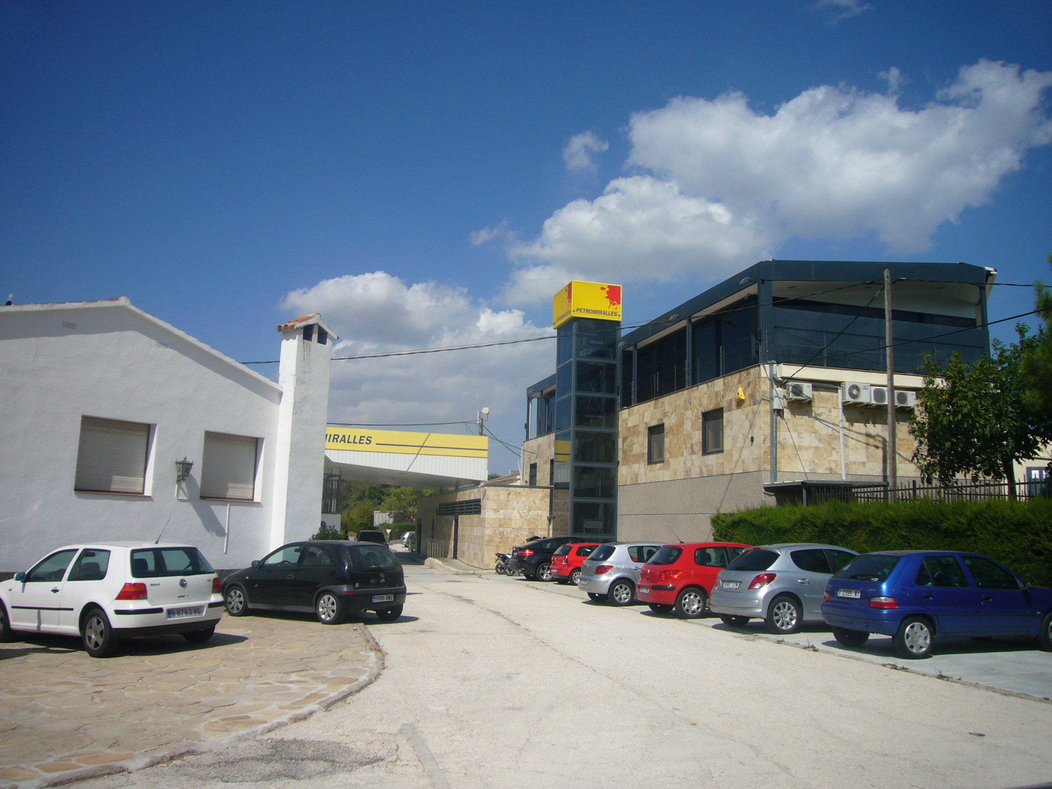 Petromiralles head office